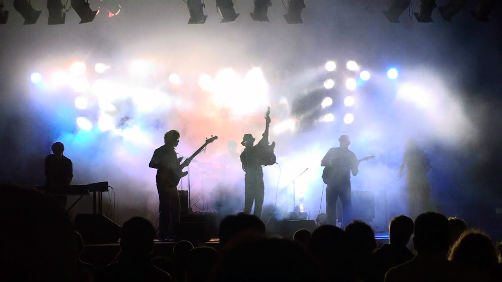 Official photo taken at the show that gave "El Atolón de Funafuti" in the city of Villa Gesell in January 2011.